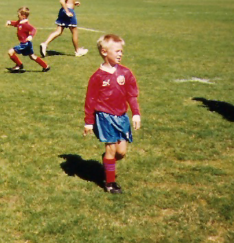 Andreas Landgren in Helsingborgs IF during Listorpscupen in Helsingborg on the 12th of August 1995.